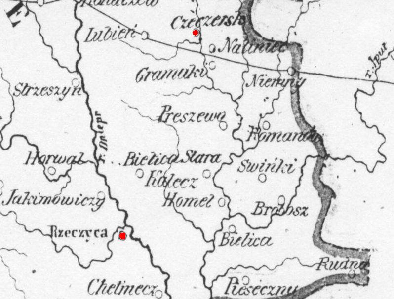 Map Chechersk starostvo for 1772